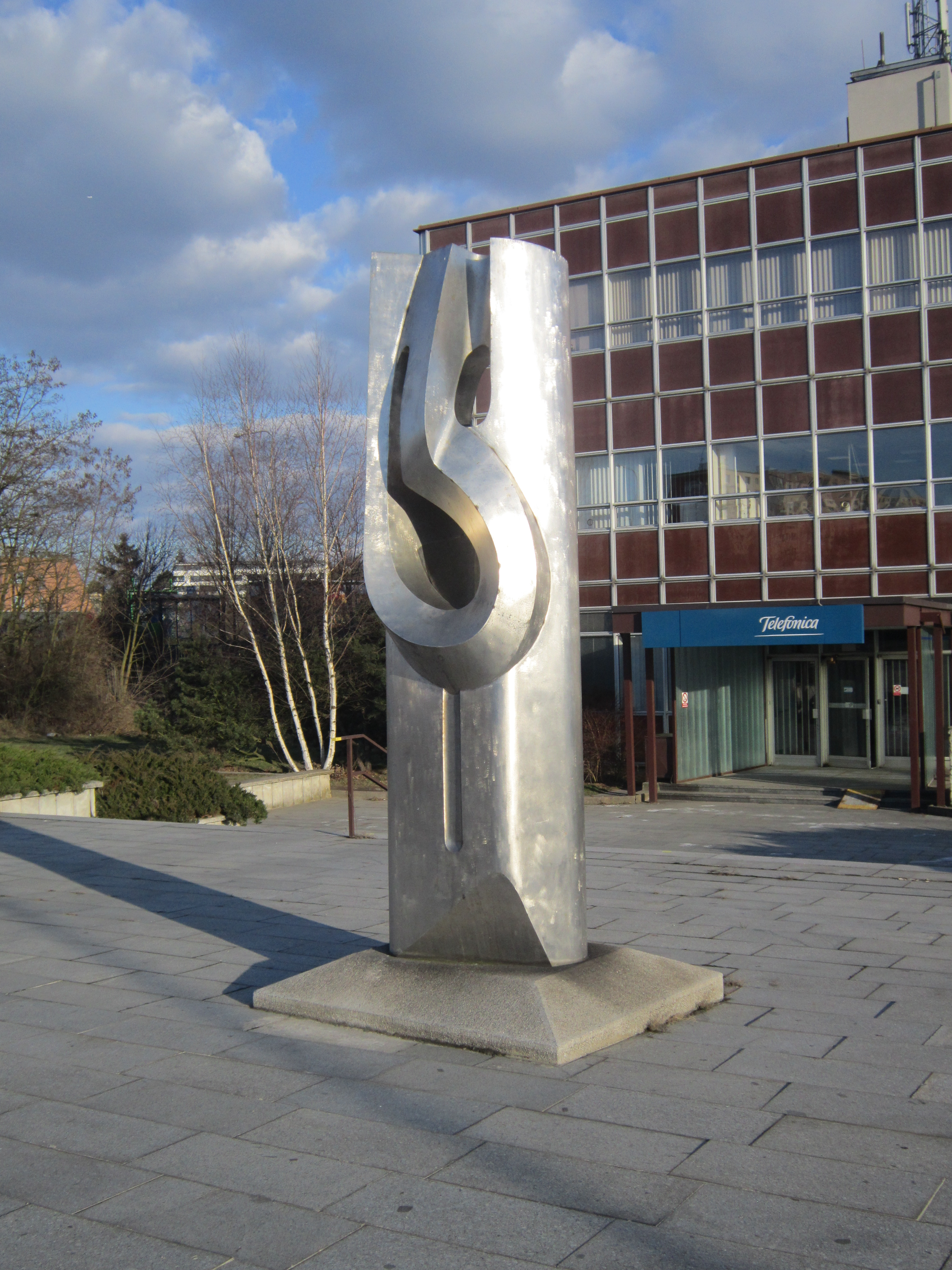 Sculpture by Alois Sopr.